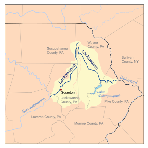 This is a map of the Lackawaxen and Lackawanna watersheds I made using USGS and Census Bureau data.